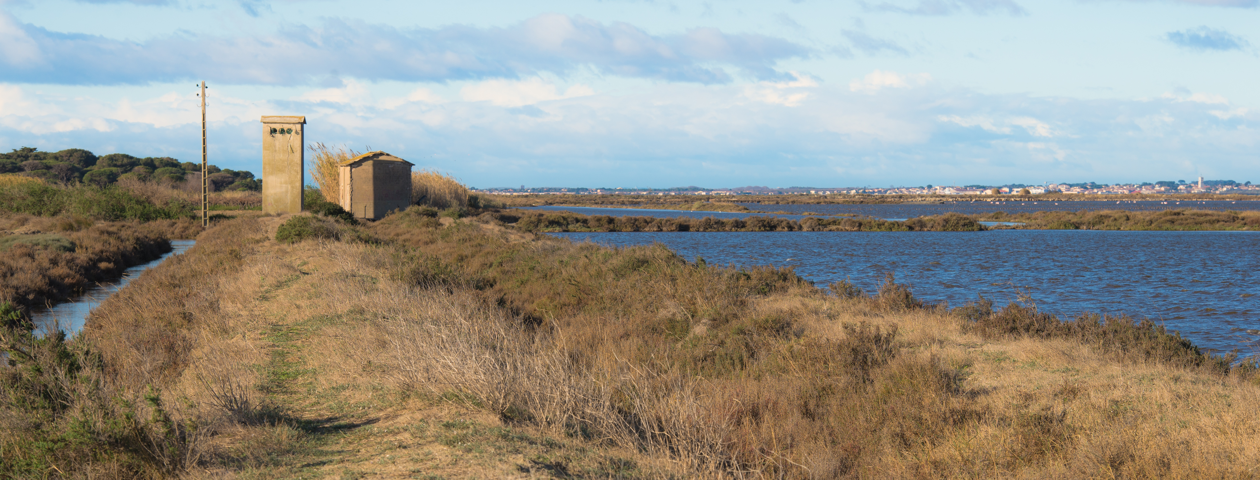 A former pumping station in former salt evaporation ponds ("salins de Villeroy"). The place is named "Lido de Thau" and is protected by the Conservatoire du littoral. Sète, Hérault, France.